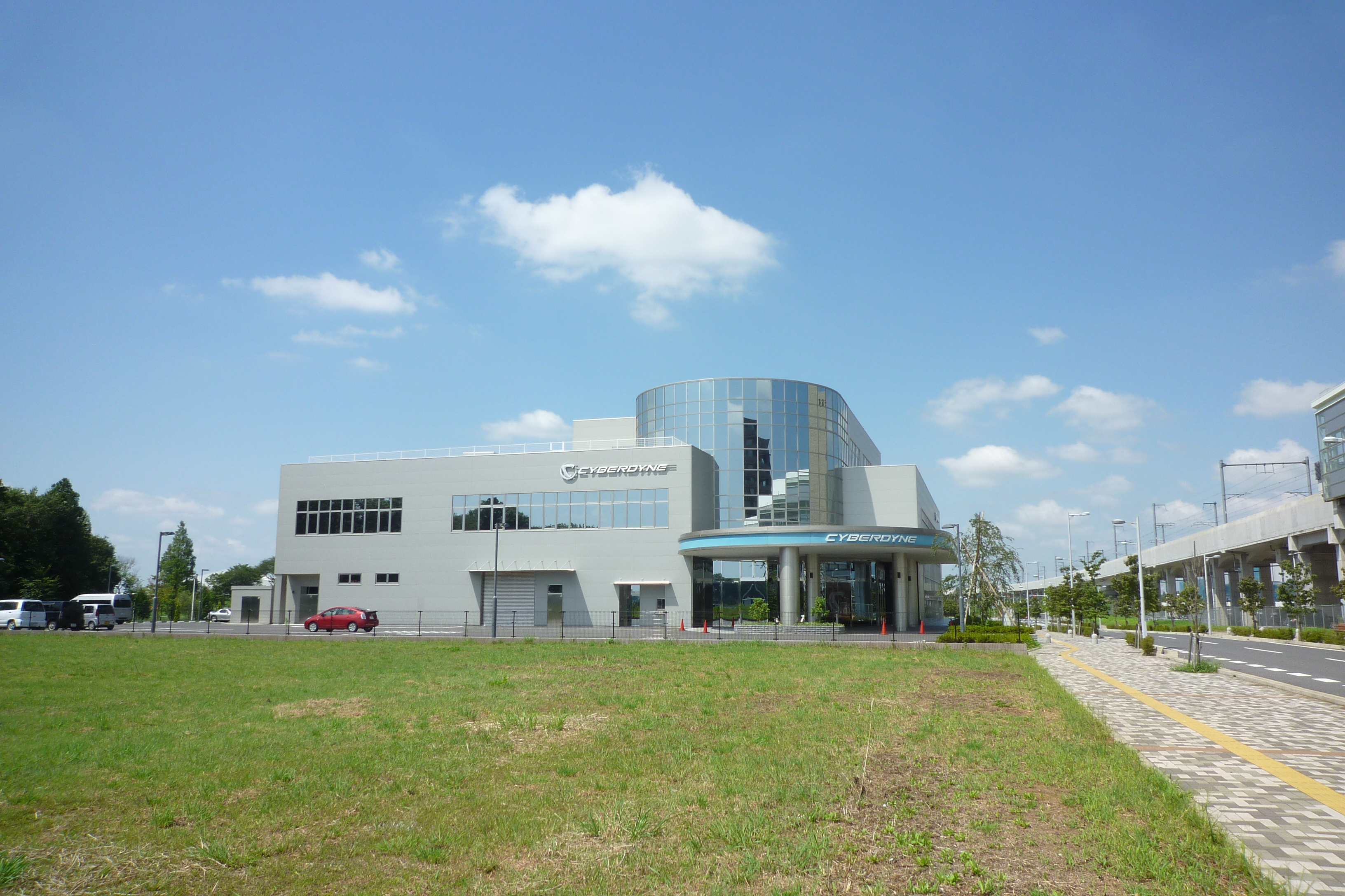 Cyberdyne is a Japanese robotics and technology company.